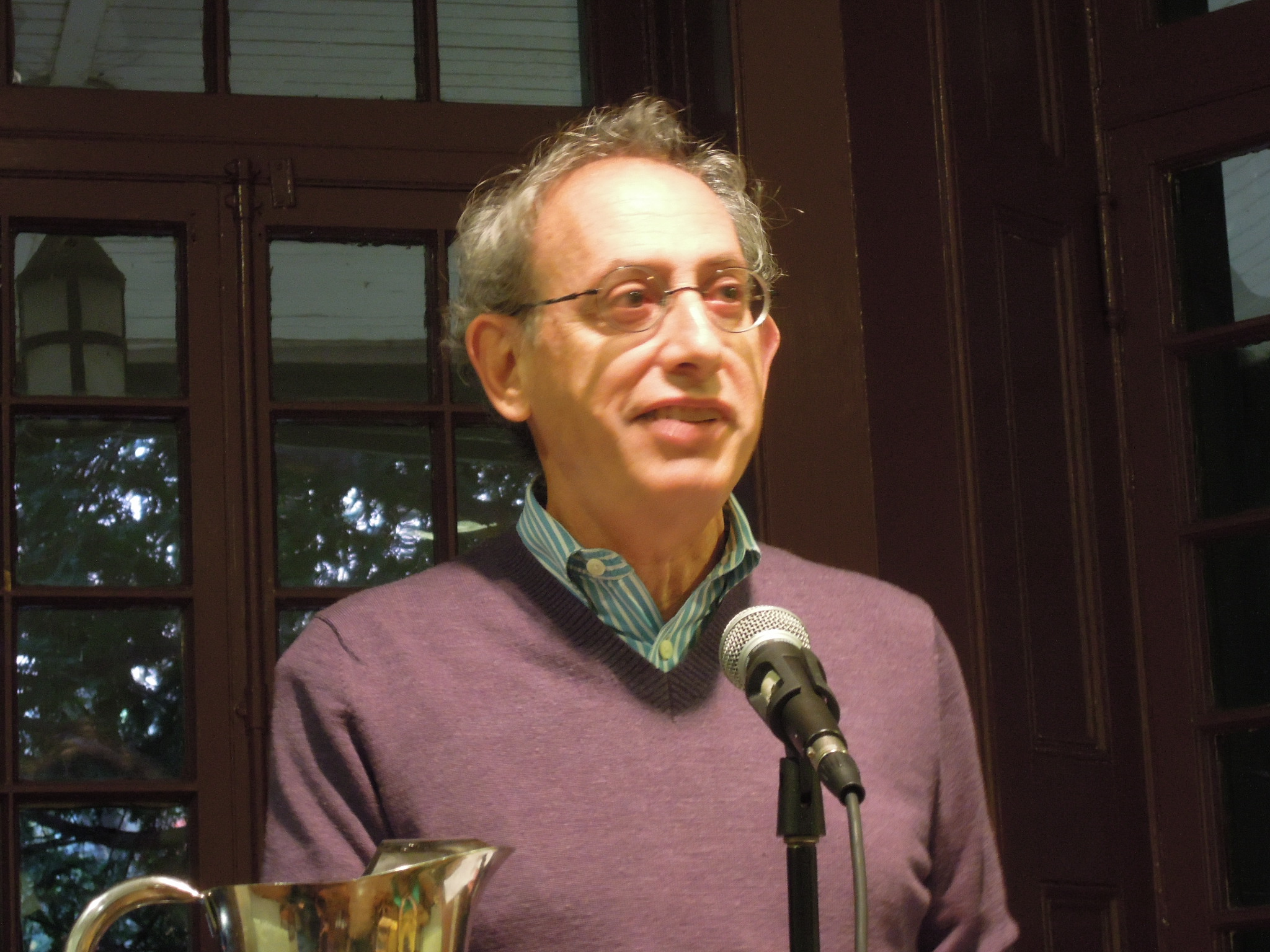 American writer and journalist Ken Kalfus in October 2013